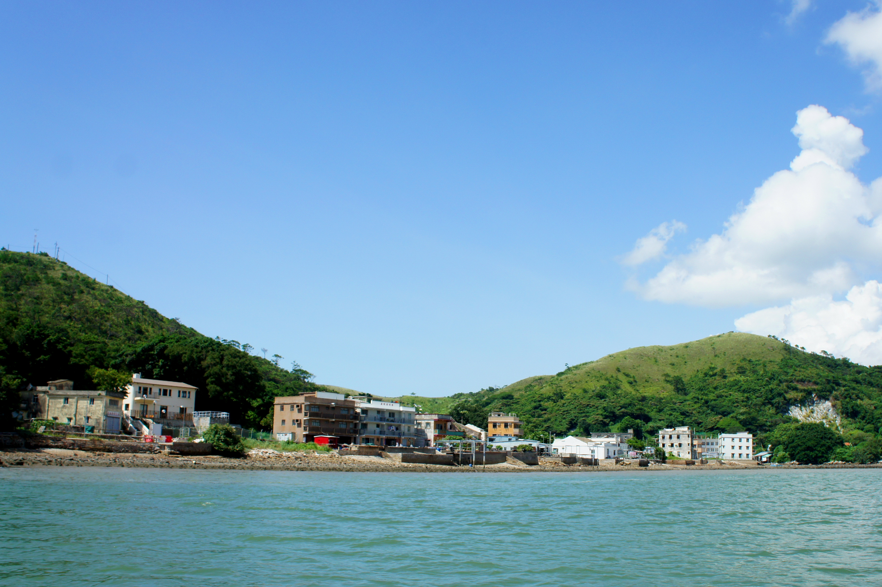 Shek Tsai Po, Tai O, Hong Kong.